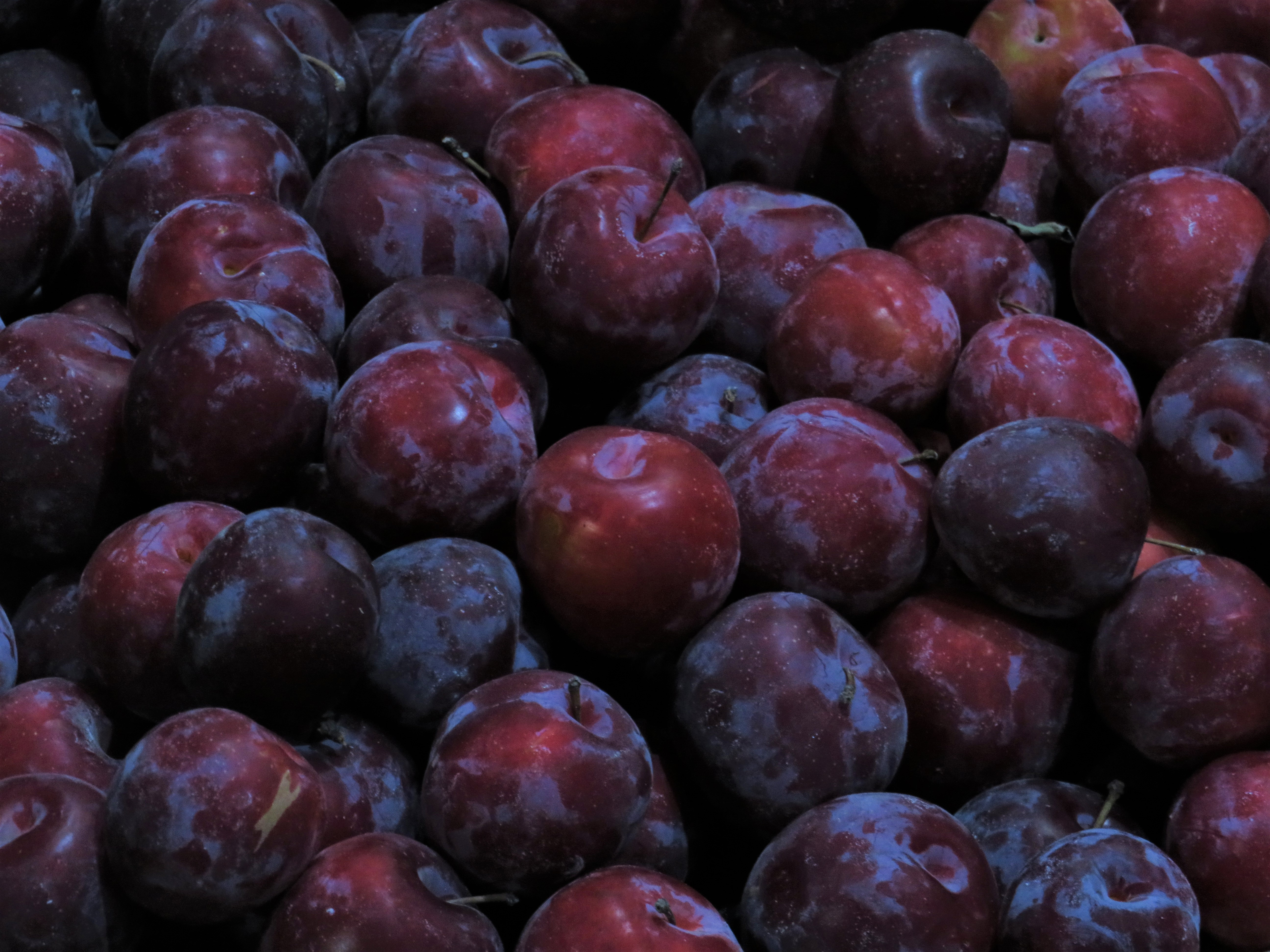 Plums in Jammu